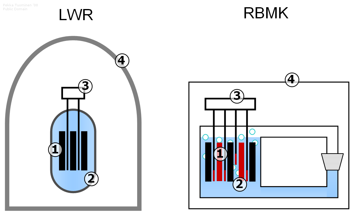 The critical differences in the RBMK reactor compared to a LWR (Light Water Reactor) that directly contributed to the Chernobyl disaster. 1. The flamable graphite moderator in the reactor core that burned in the fire, 2. The positive void coefficient in the water that made possible the power peak that blew the reactor vessel, 3. The control rods were very slow, they took 18-20 seconds to be inserted into the reactor. Moreover they had graphite tips that actually intensified the fission chain reaction in the beginning of the insertion. 4. No containment building at all.